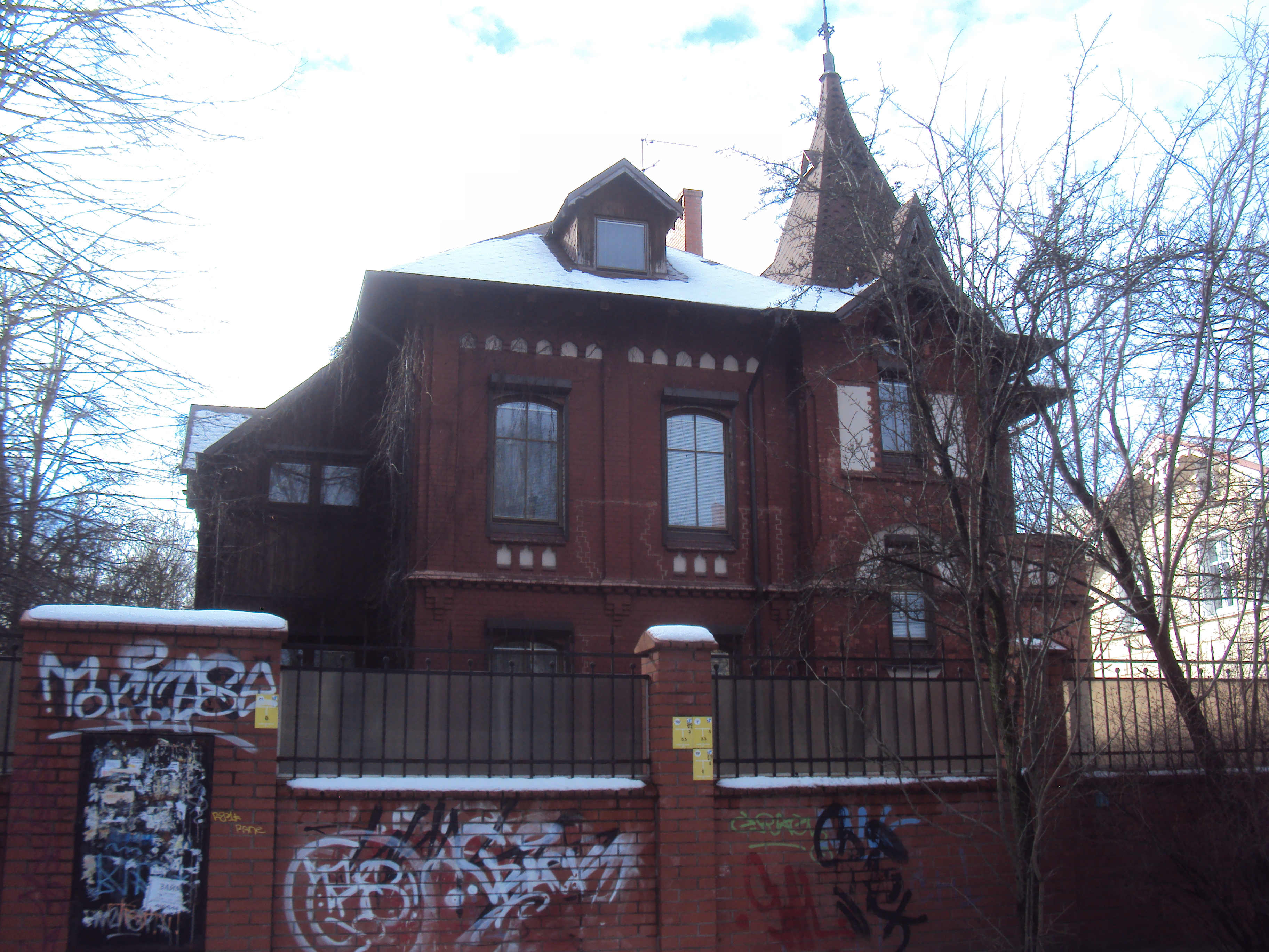 dwelling house